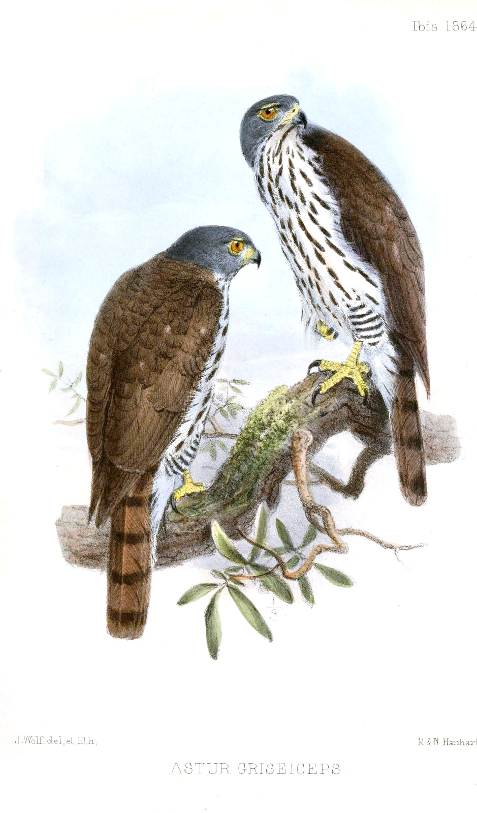 « Astur griseiceps » = Accipiter griseiceps (Sulawesi Goshawk)